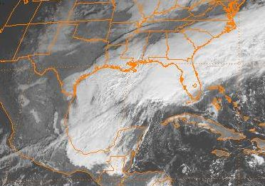 Image of cyclone (south of Louisiana) which brought snow to South Texas on Christmas Eve. Image from 1500 UTC on December 25, 2004. The white on the image in South Texas shows the extent of the snowcover.